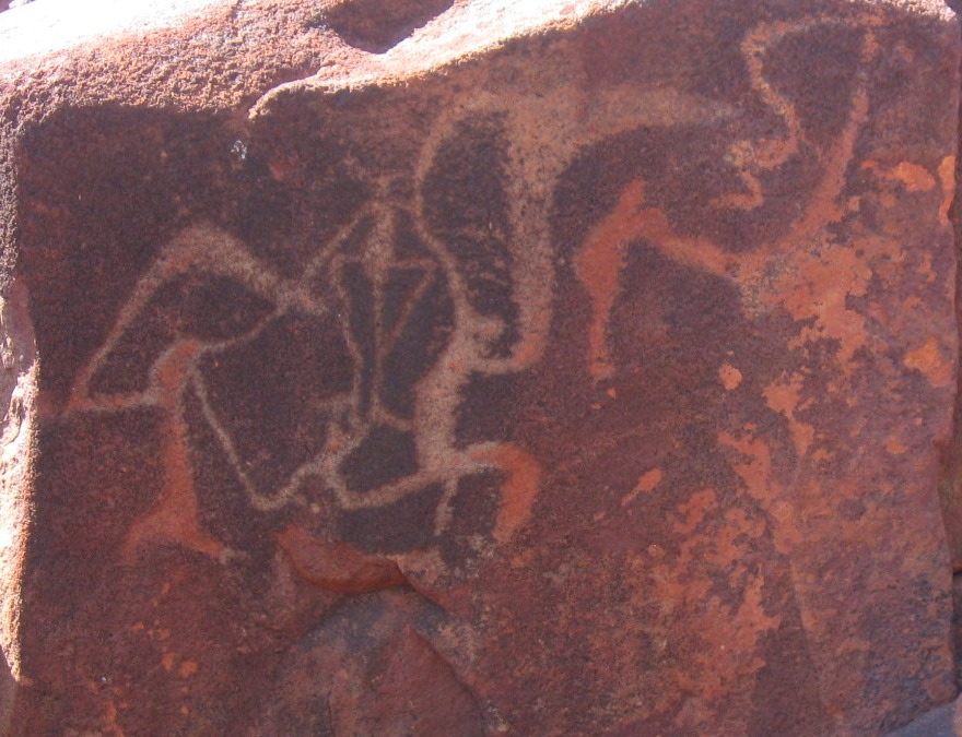 Aboriginal rock carving at Burrup Penninsula in the Pilbara Region, Western Australia